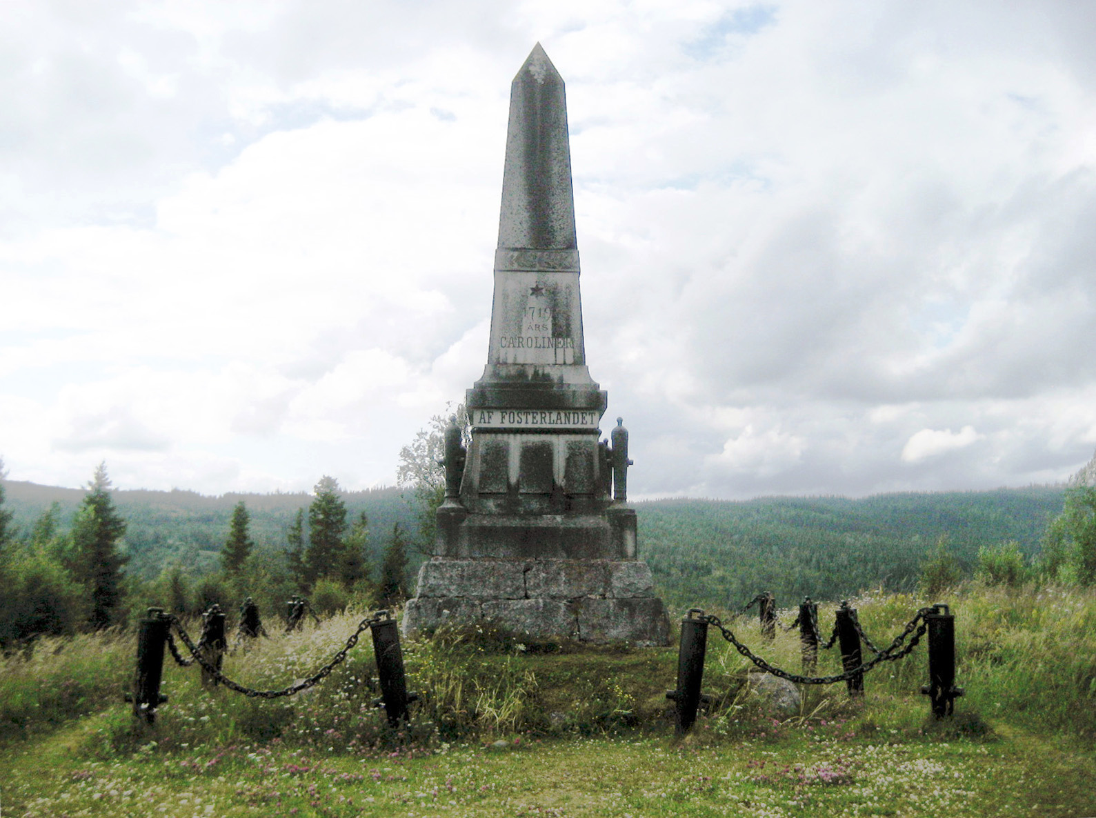 Karolinermonumentet in Duved, Sweden. Raised in memory of the Caroleans who died in the mountains during the Carolean Death March in 1719.